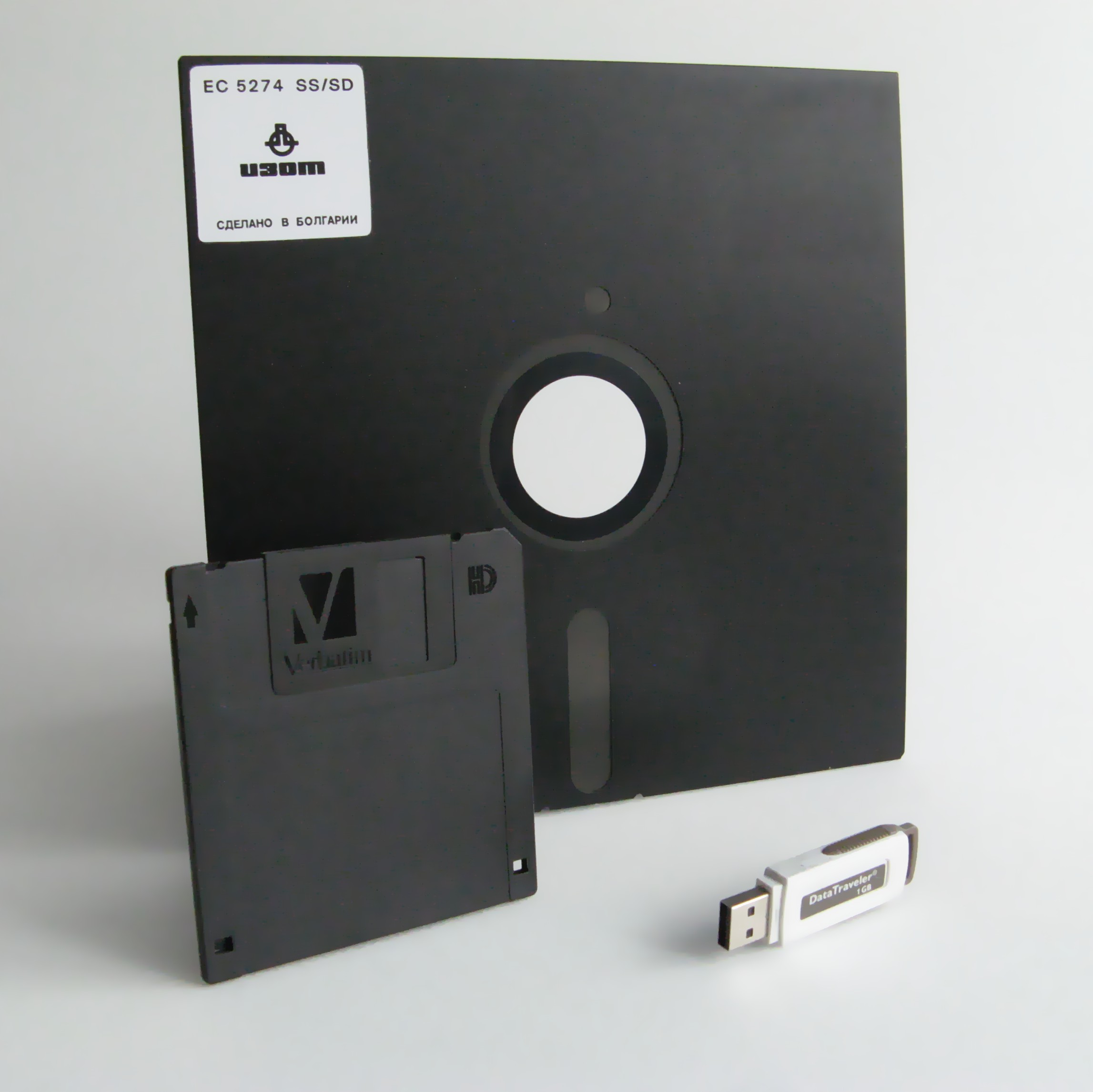 8"/3,5"_floppy_disks